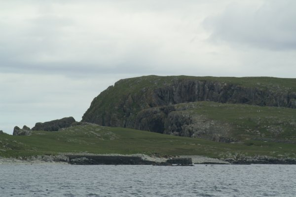 Muckle Head, Balta isle The headland of Muckle Head on the island of Balta, photographed from Unst.